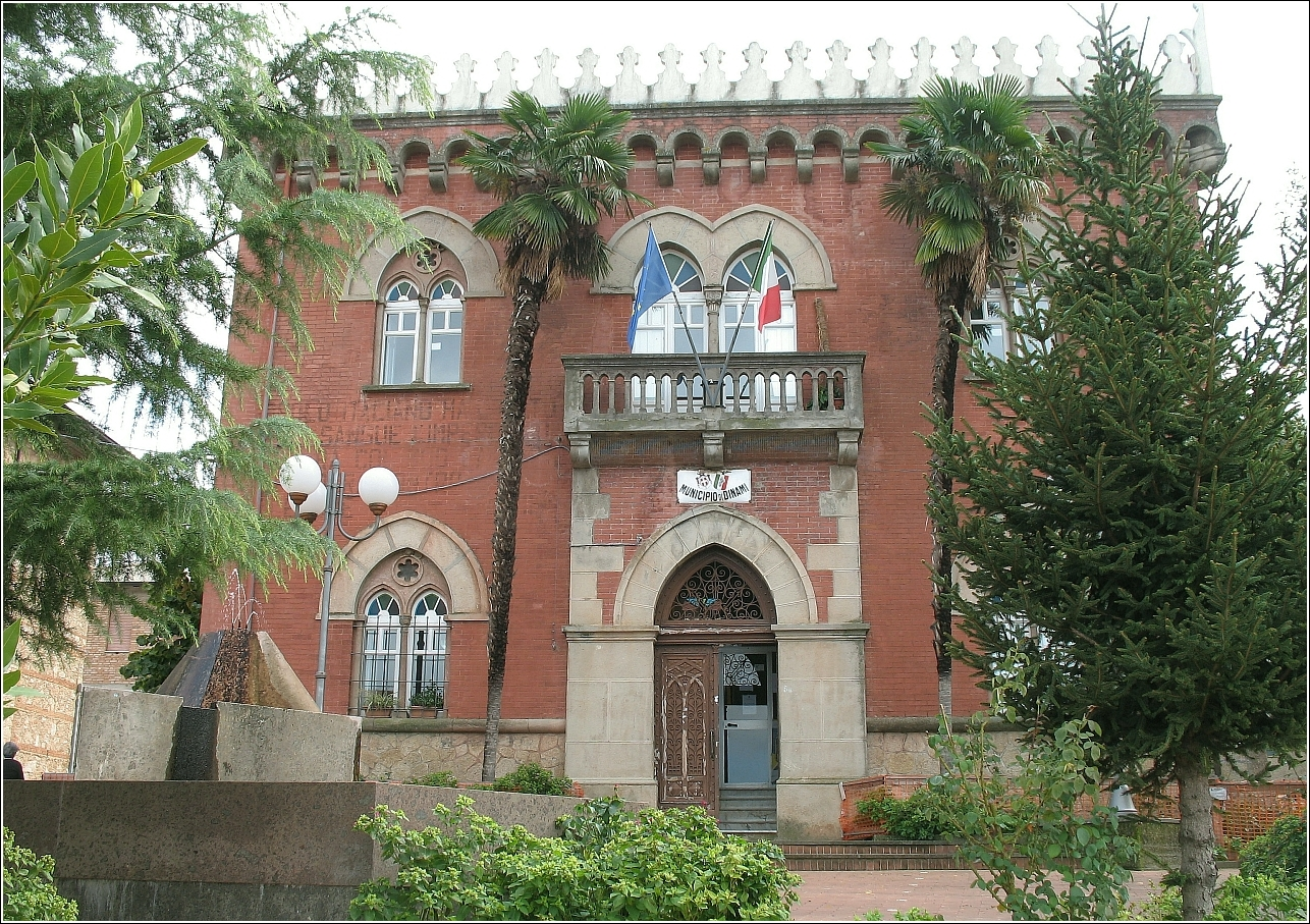 Comune